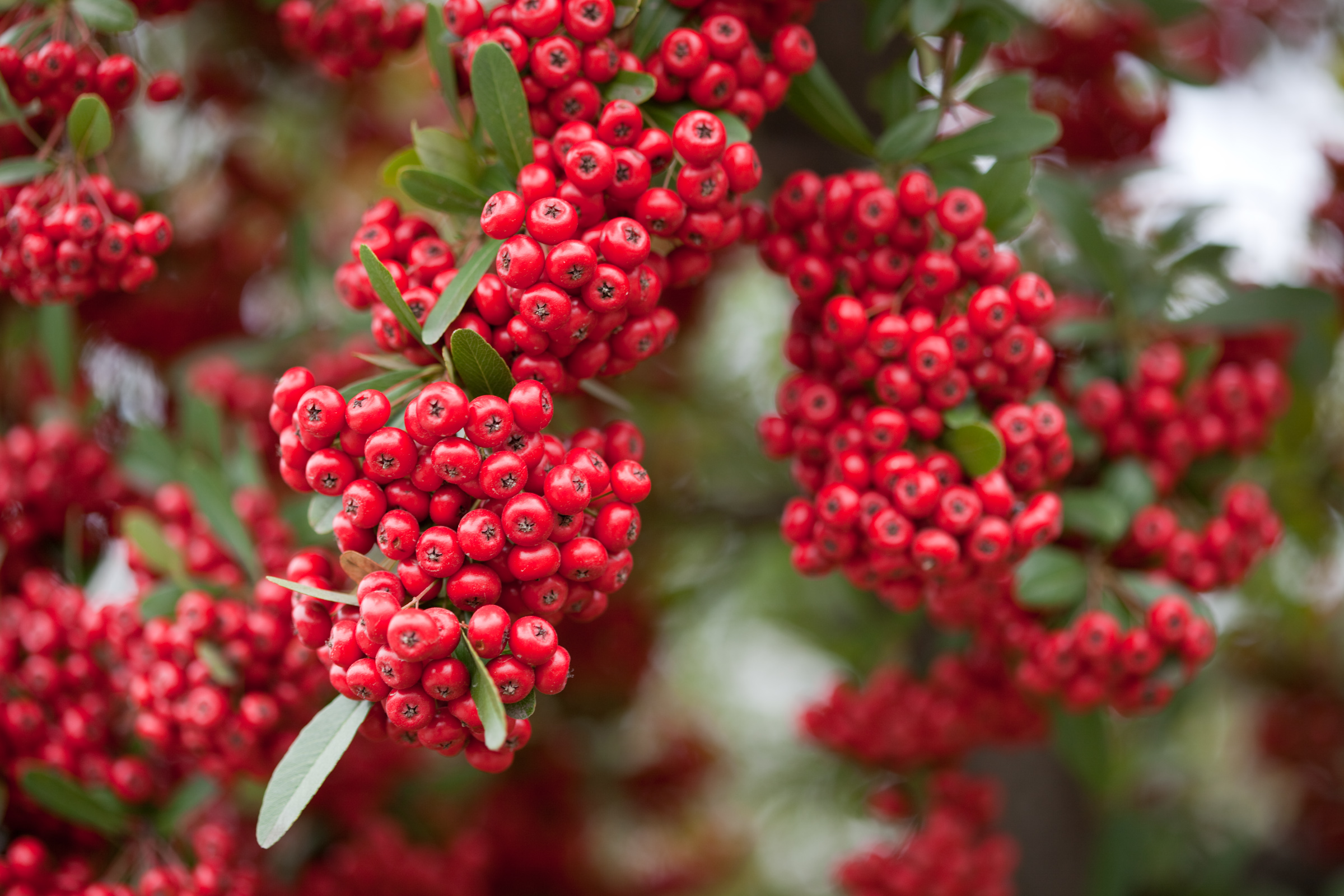 Red pommes of Firethorn (Pyracantha). Shot near Tō-ji temple in Kyoto, Japan.